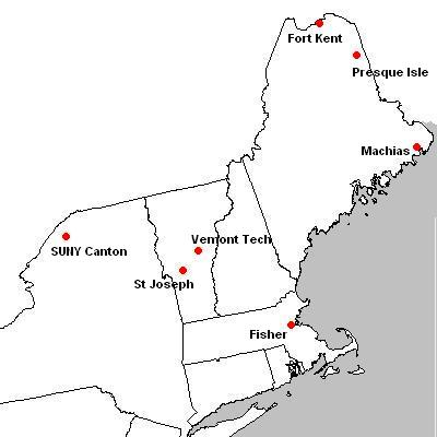 I created this map, similar to other conference maps found on WP. This map's information was found via the Sunrise Conference offical web site. This is current as of 2011-01-07.